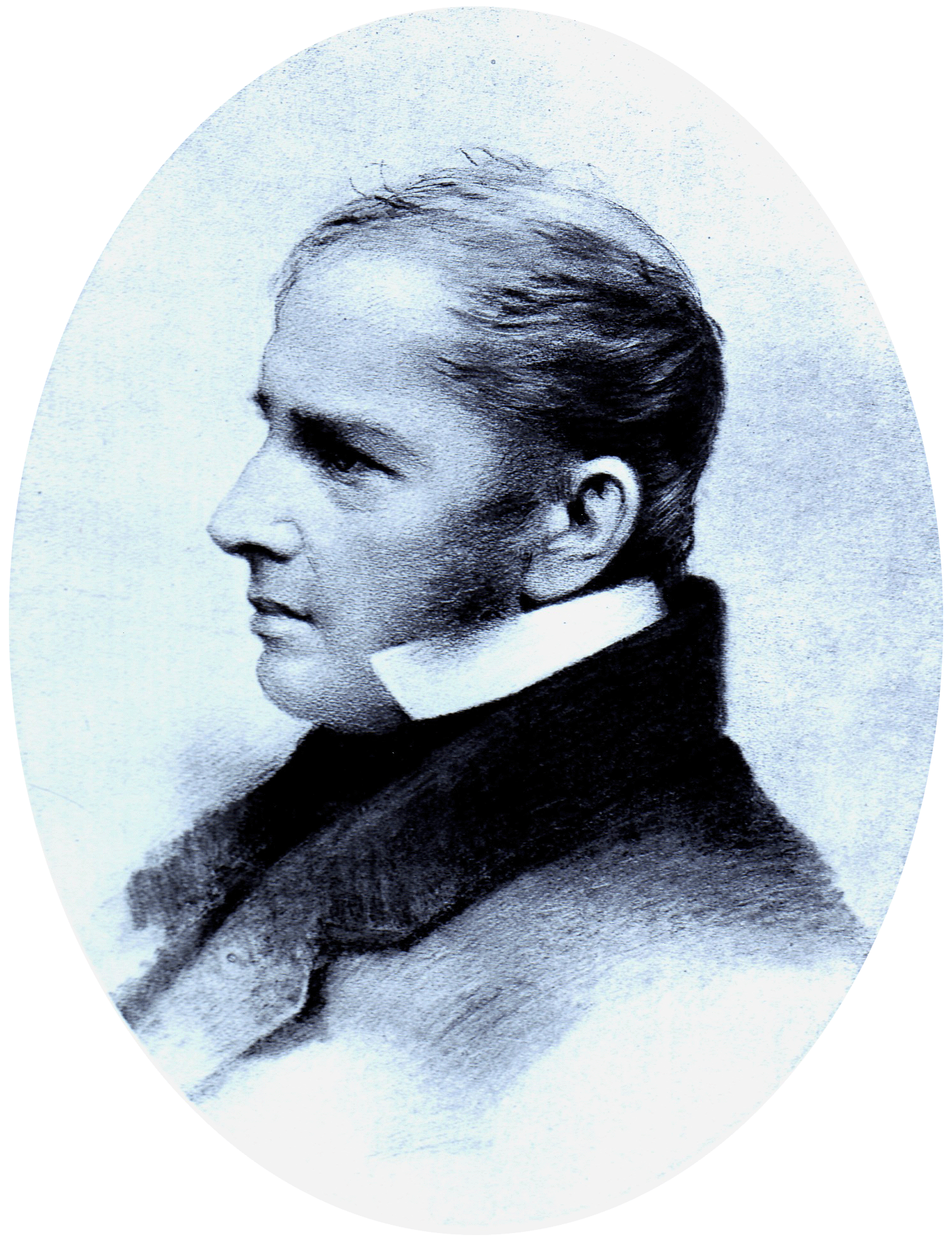 Botanist Benjamin Daniel Green (1793-1862)